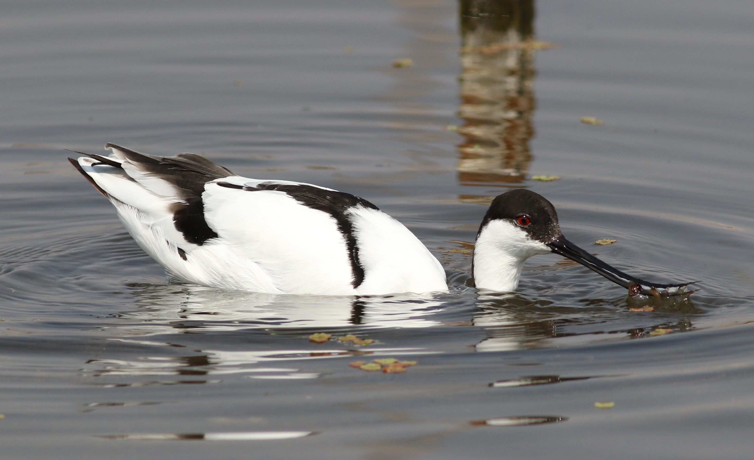 Pied Avocet, Recurvirostra avosetta at Marievale Nature Reserve, Gauteng, South Africa